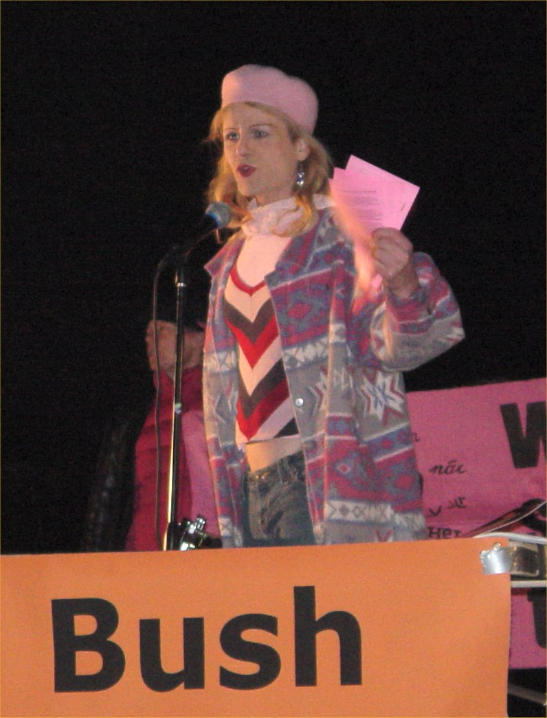 Midge Potts speaks at the protest held outside the US Capitol during the 2007 State of the Union Address. Photo taken by Ben Schumin on January 23, 2007.